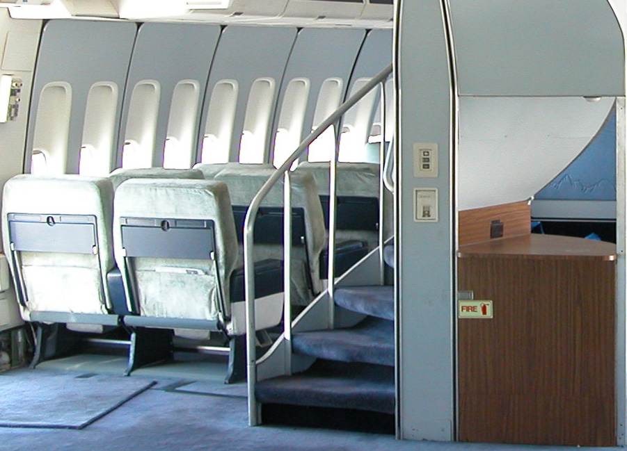 First class section of NASA's 747 Shuttle Carrier Aircraft N905NA. (cropped from original)